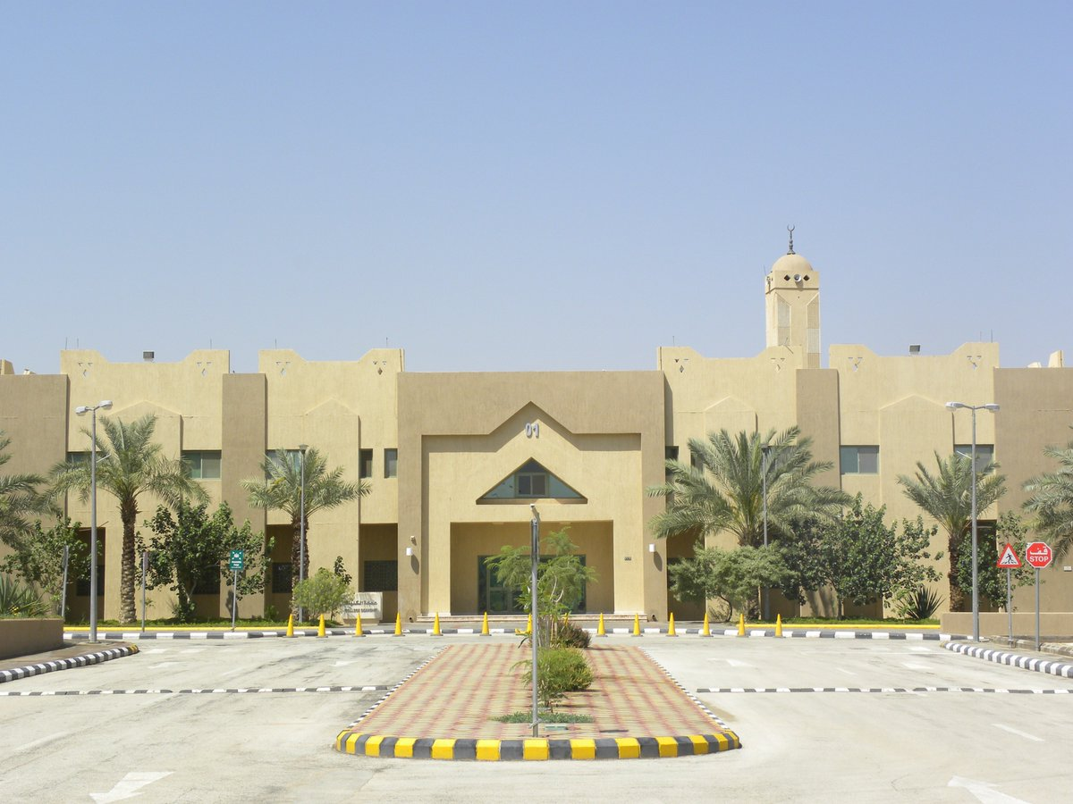 واجهة عمادة الكلية التقنية بالخرج